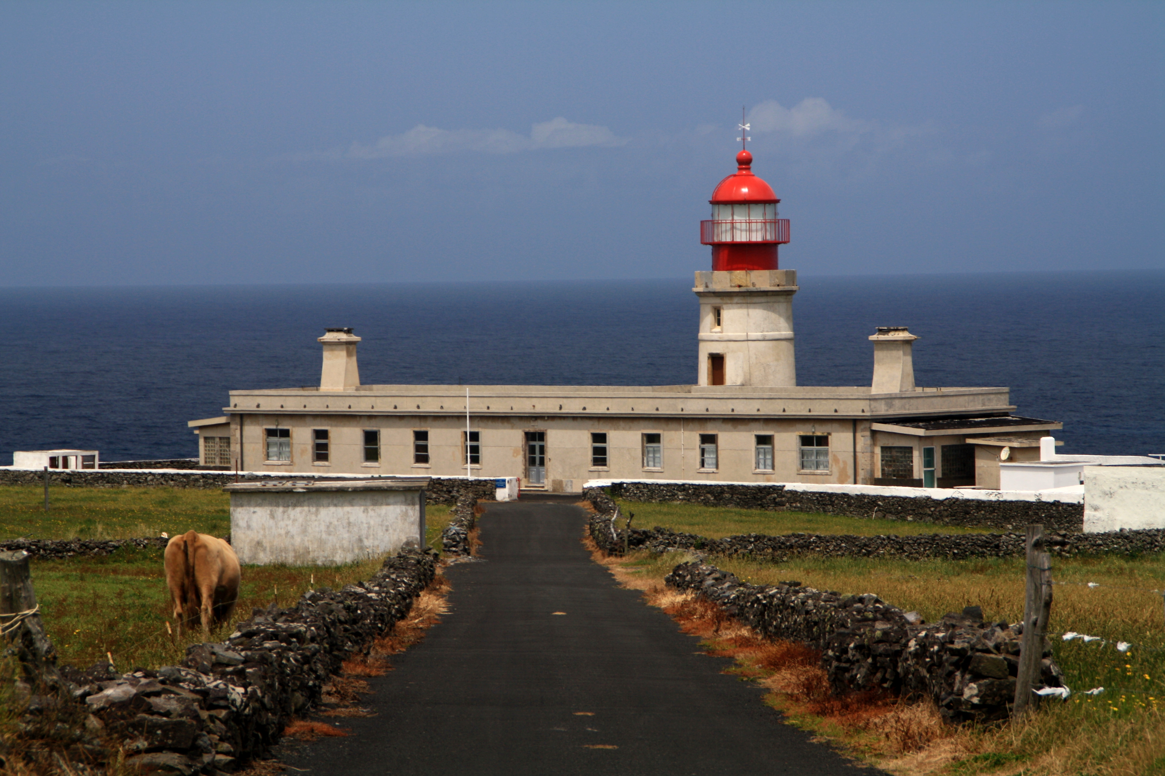 The lighthaouse at cape Ponta do Albarnaz, Flores, Acores.